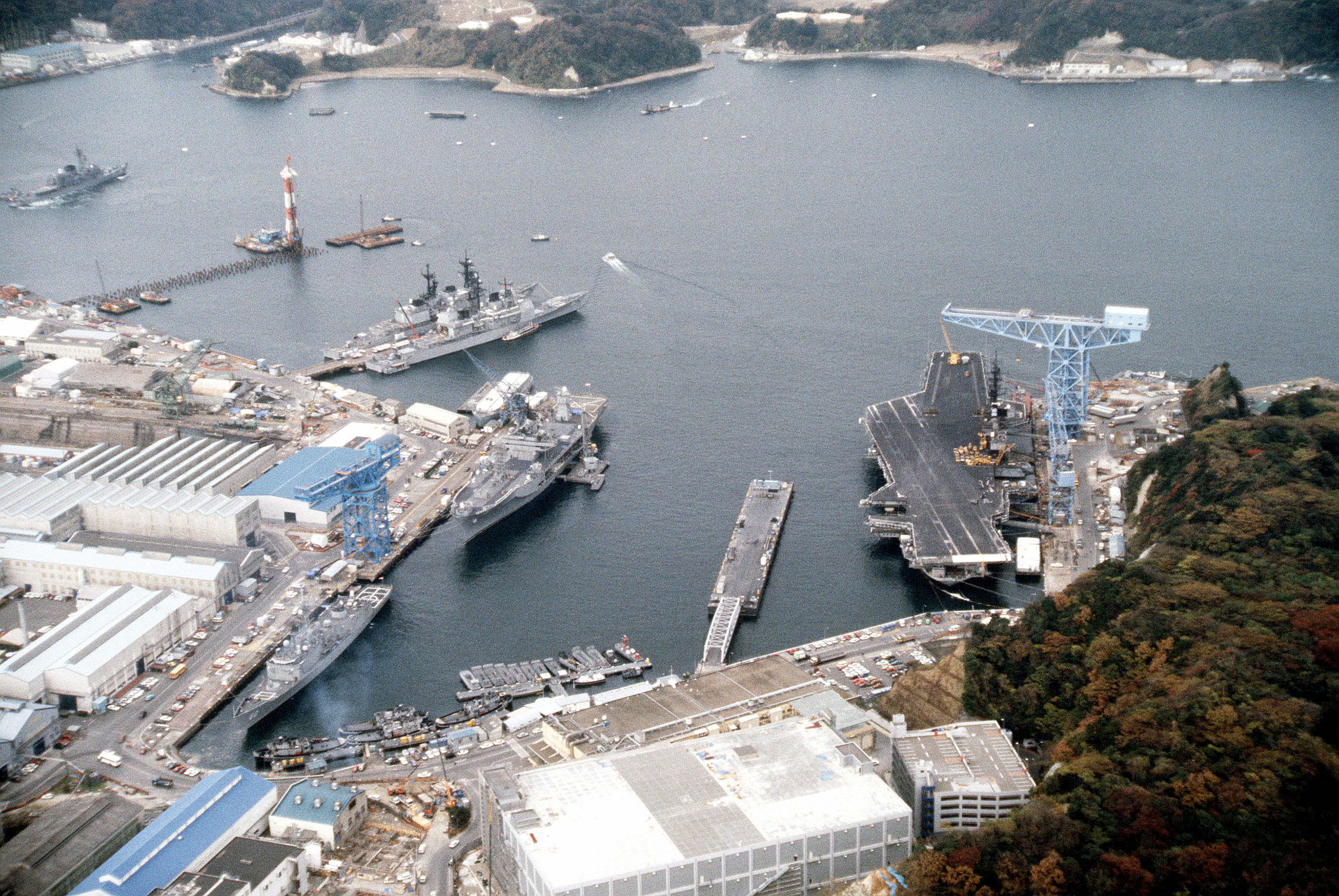 An aerial view of docked warships. Right to left: the aircraft carrier USS MIDWAY (CV-41), the amphibious command ship USS BLUE RIDGE (LCC-19), the guided missile frigate RODNEY M. DAVIS (FFG-60), the guided missile cruiser USS BUNKER HILL (CG-52) and the [?] (rest of caption is missing in original) Ship next to Bunker Hill is a Spruance-class DD.